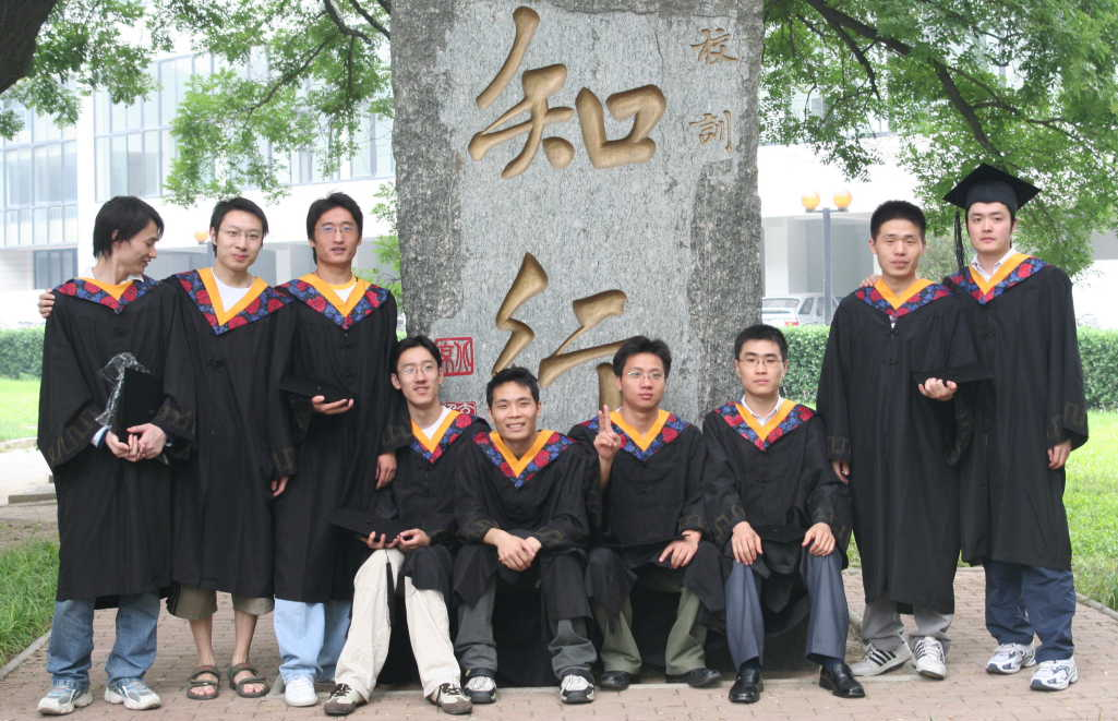 Maths Bachelor Degree Graduation Ceremony in Jiaotong Daxue